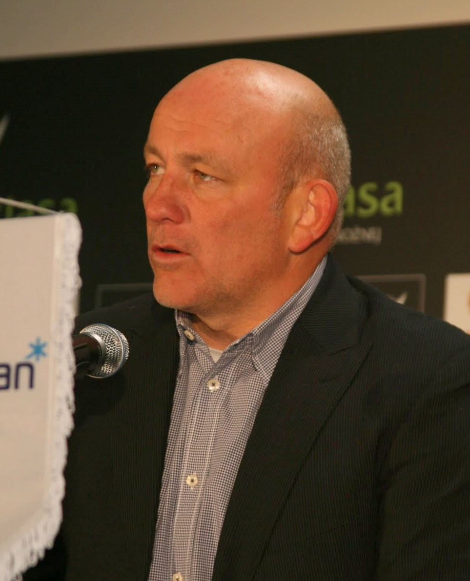 Dutch football player and coach Theo Bos